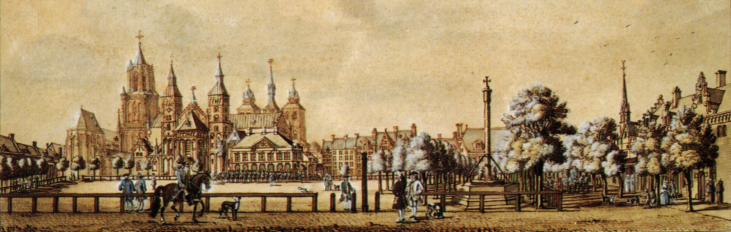 View of Vrijthof square in Maastricht in the 18th century. Drawing attributed to Jan de Beijer.